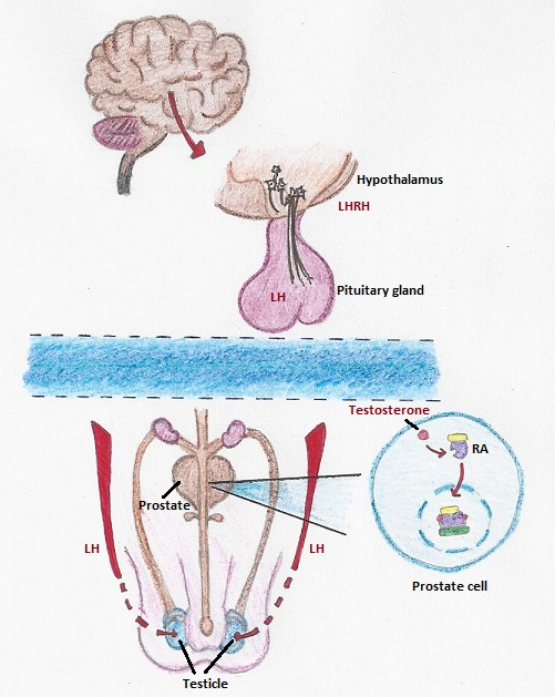 The picture shows how the testosterone (an androgen) is sythesized.